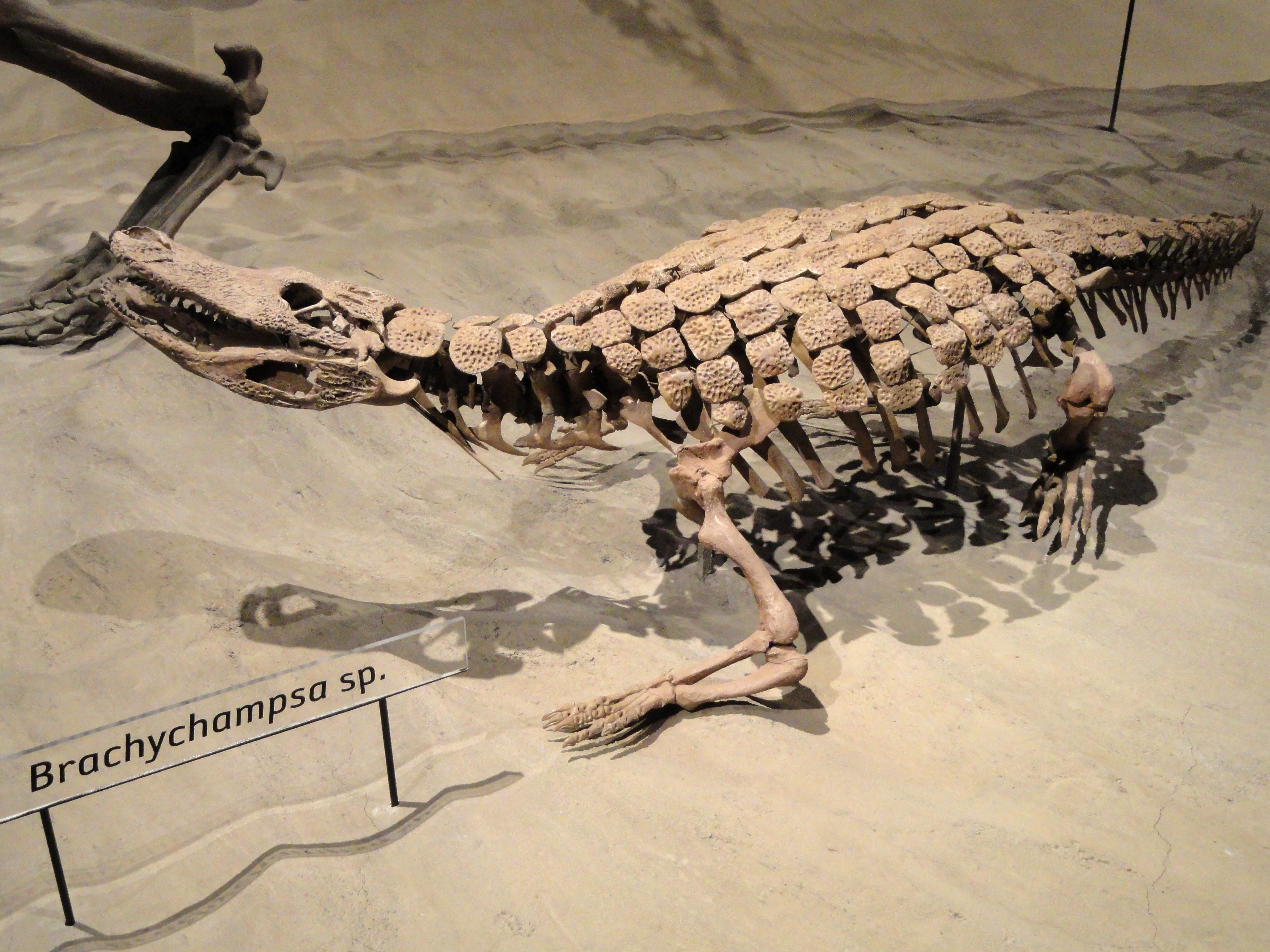 Fossil specimen in the Natural History Museum of Utah, Salt Lake City, Utah, USA.